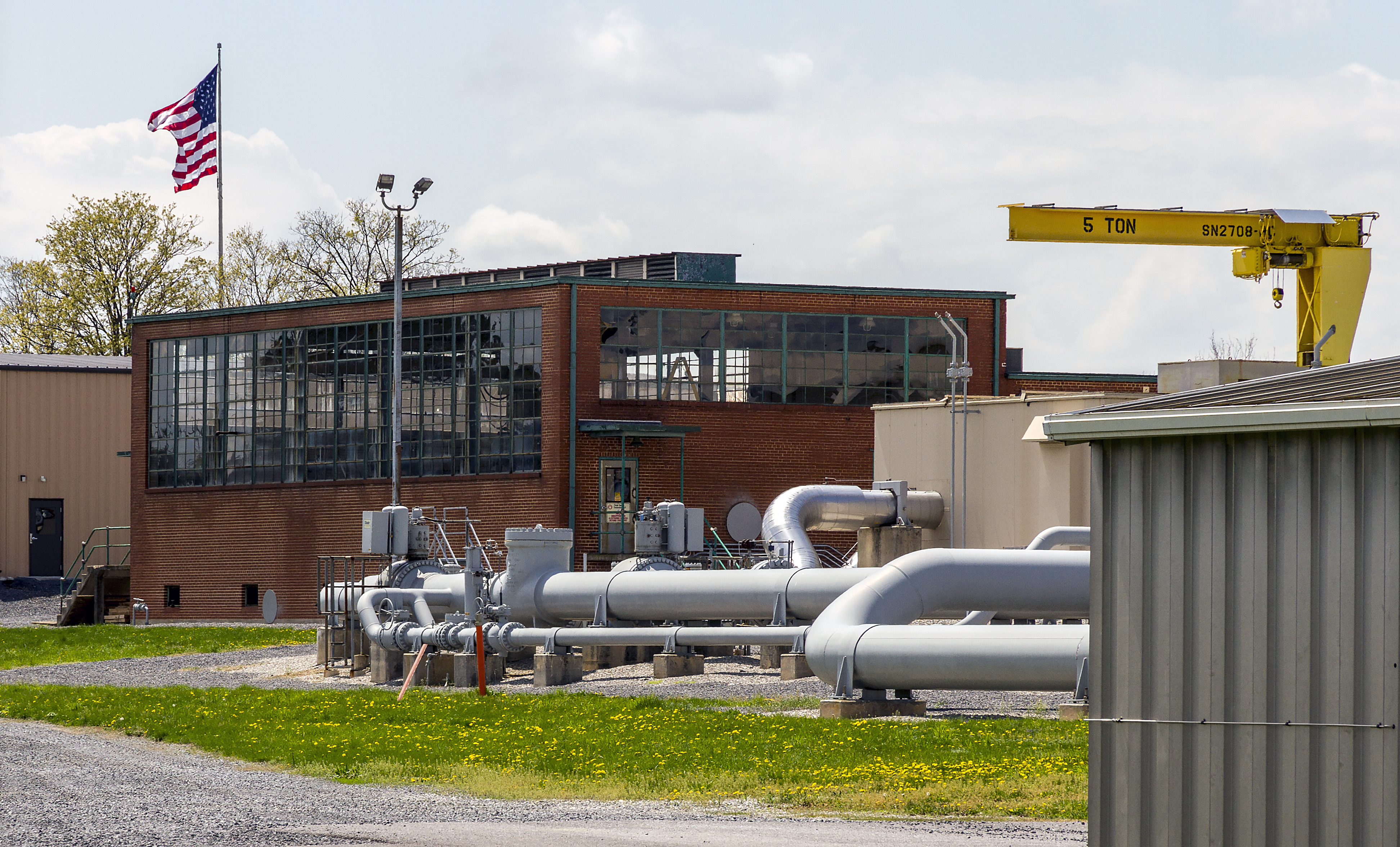 The original Big Inch pumping station building on the Big Inch pipeline, near Chambersburg, Pennsylvania, USA